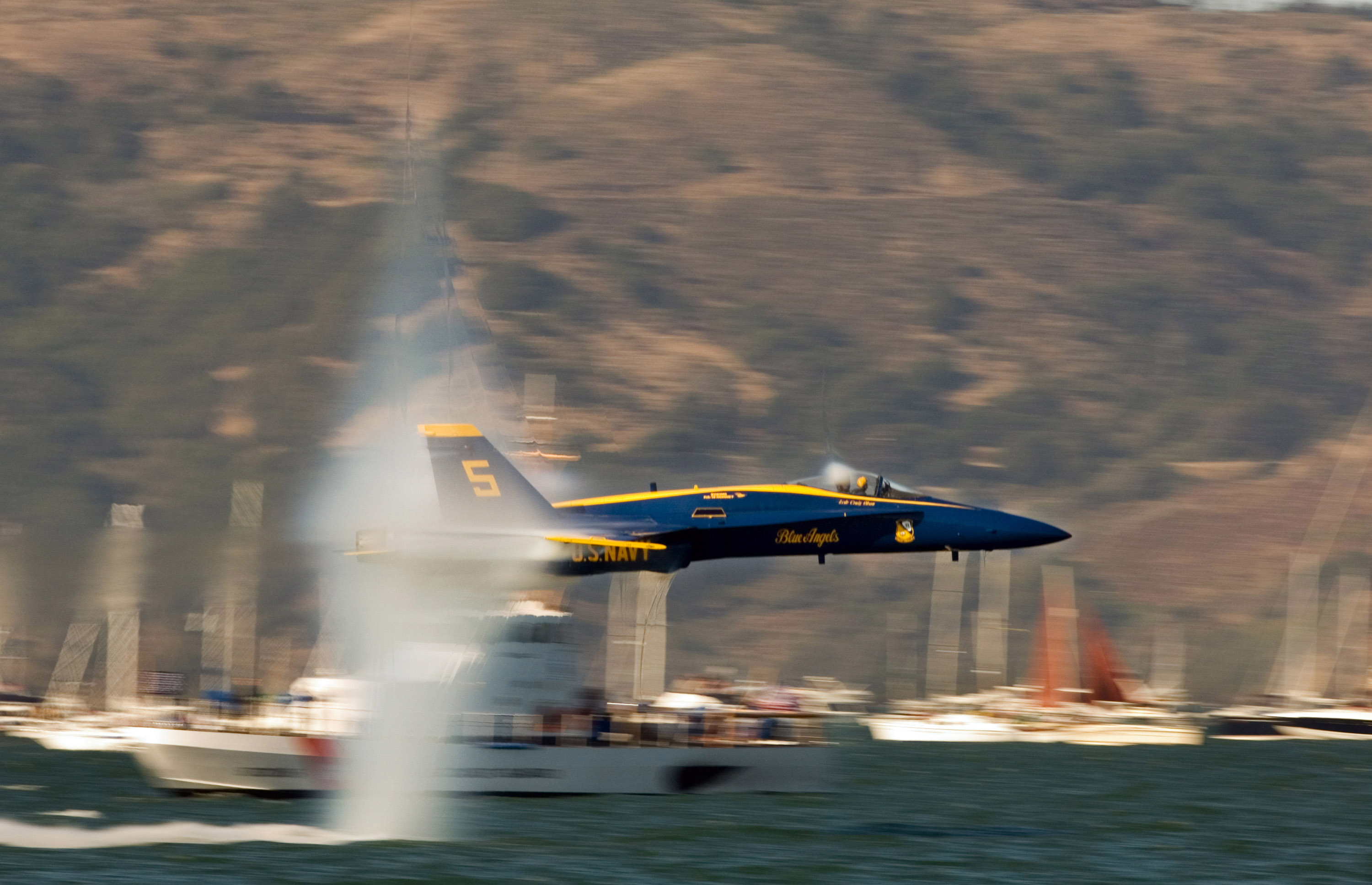 San Francisco, Calif. (Oct. 9, 2005) - The Navy's Flight Demonstration team, the Blue Angels lead solo, performs the sneak pass, a maneuver that demonstrates the F/A-18 Hornet's ability to sneak into a target area undetected at speeds approaching 700 mph. The Blue Angels perform more than 70 shows at 34 different locations throughout the country each year. U.S. Navy photo by PhotographerUs Mate 2nd Class Ryan Courtade (RELEASED)